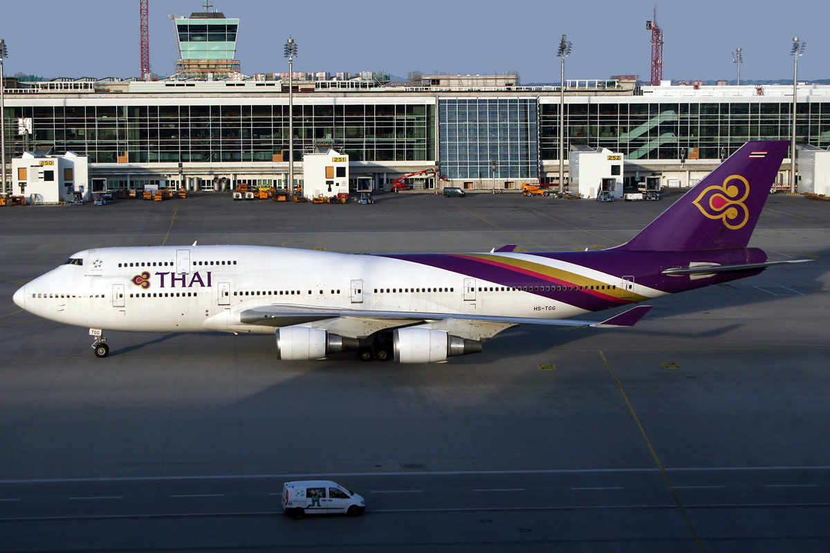 Munich (EDDM/MUC) Airport